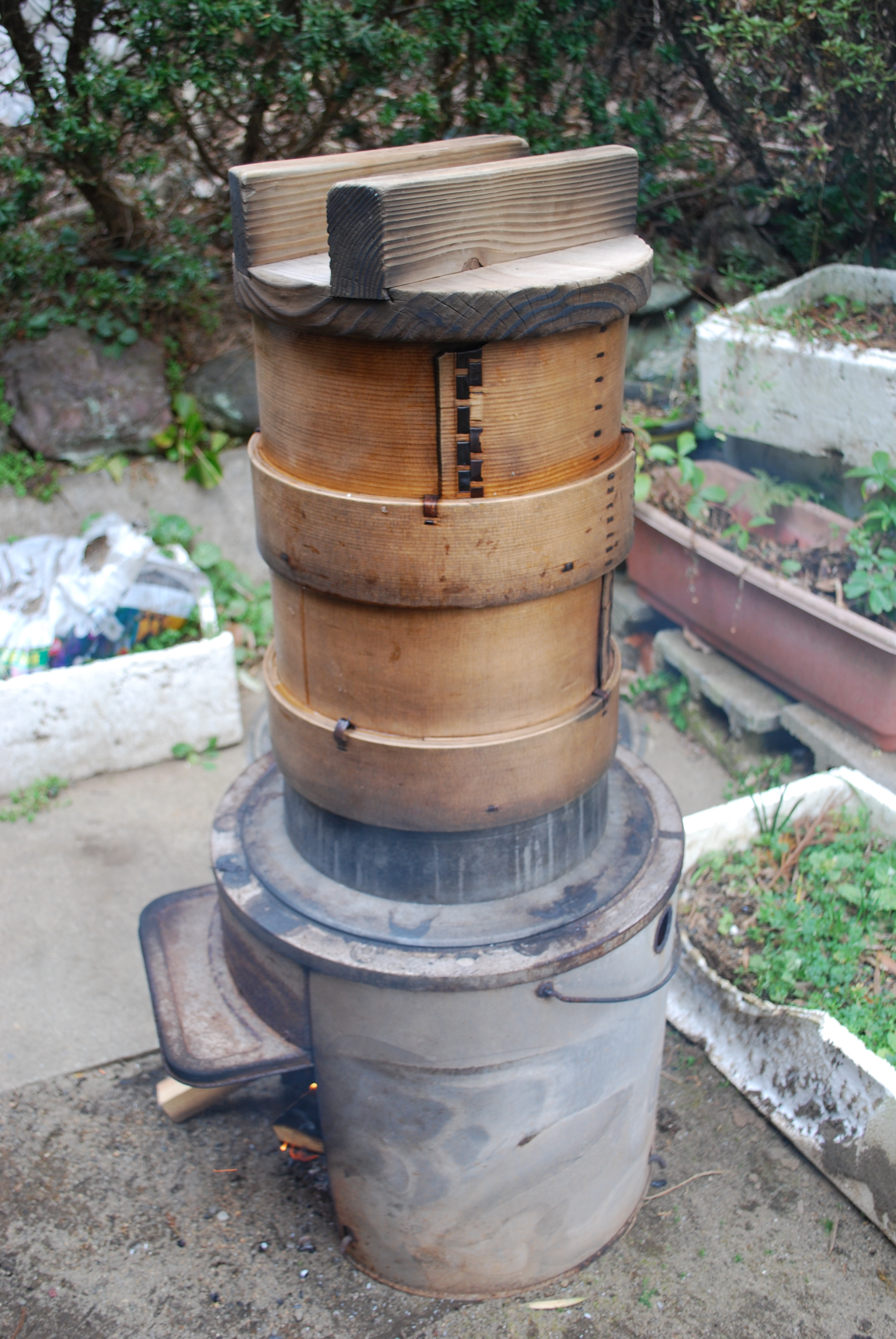 Steam glutinous rice with simple japanese hearth,Katori-city,Japan. From the bottom of the photograph, it is a hearth, a pot (water enters), bamboo steamer (in glutinous rice, inside) 2, a cover.